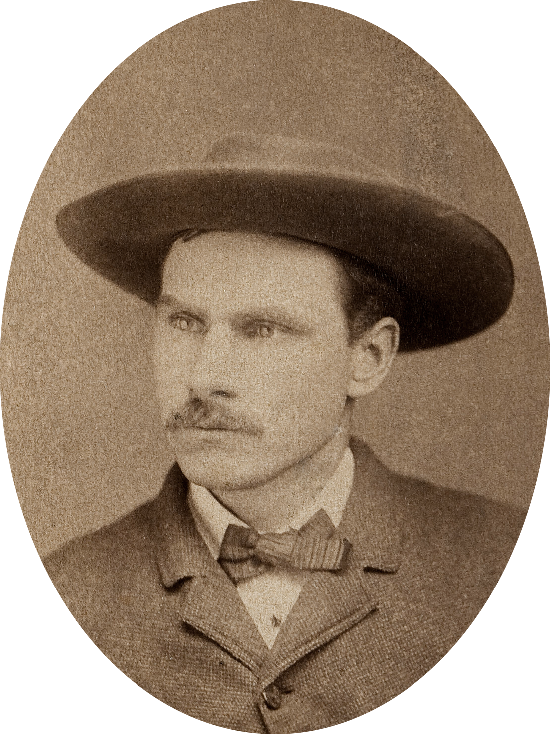 Frank E. Butler circa 1882